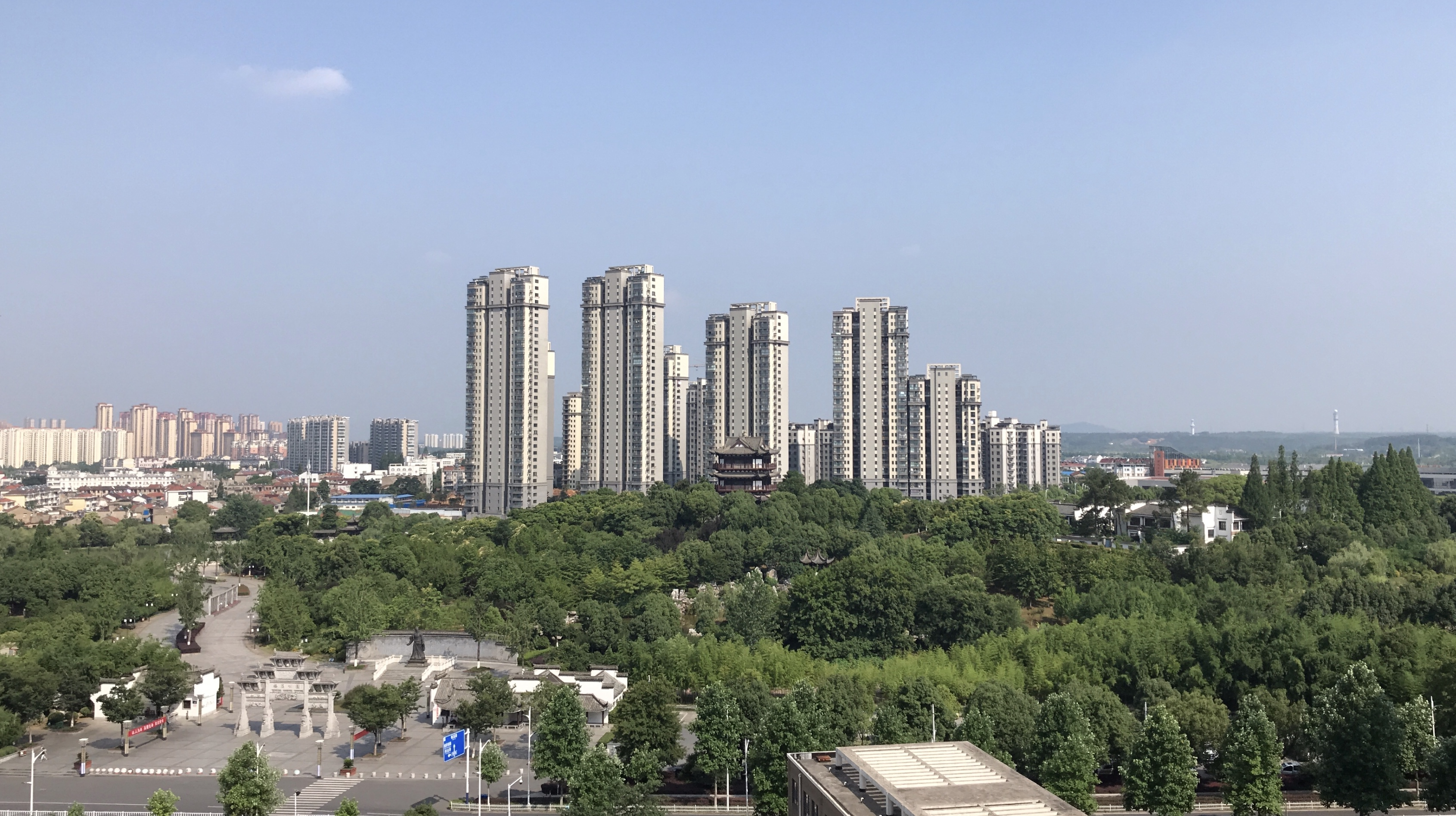 Meixi Park at Xuancheng City,Anhui Province,China